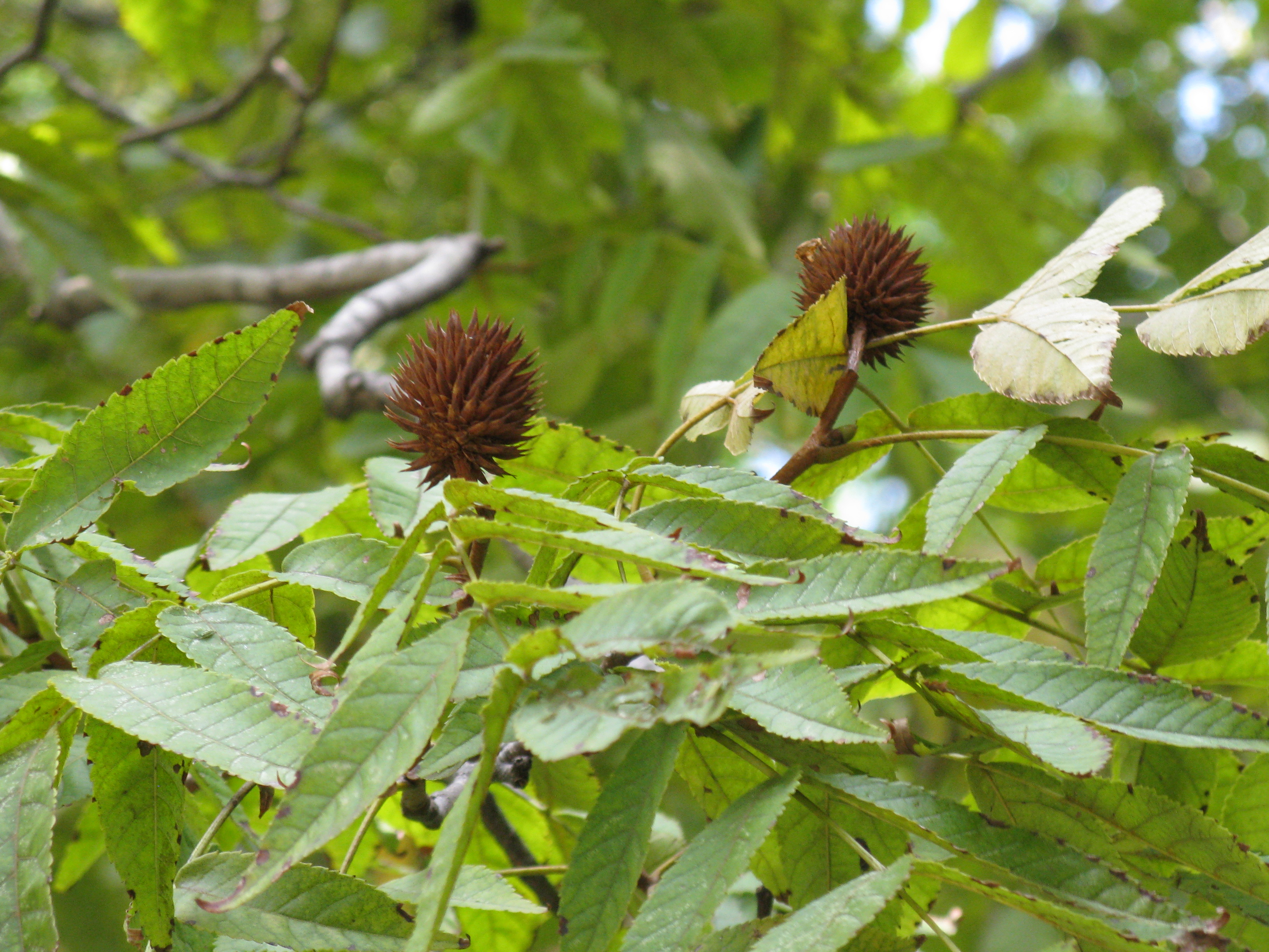 Platycarya strobilacea